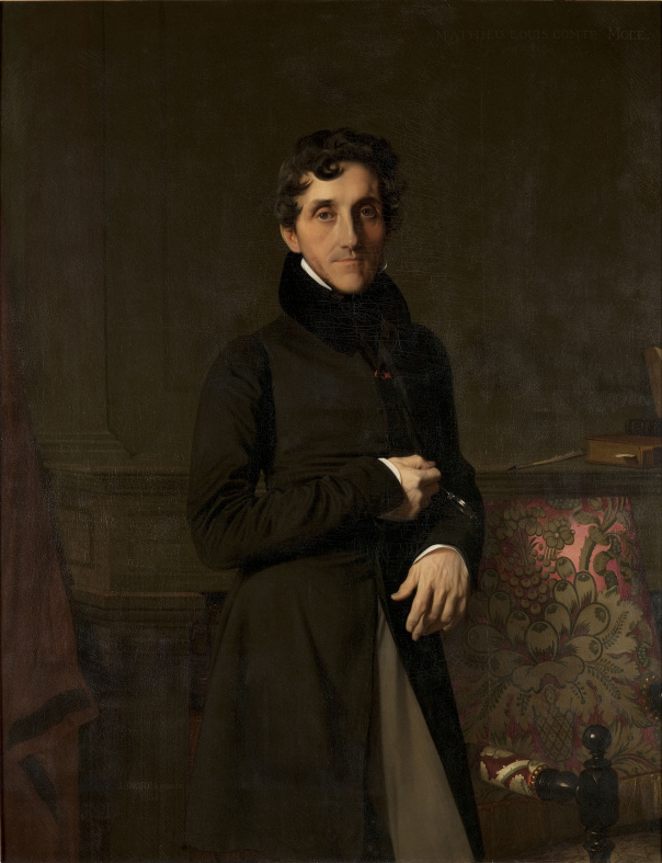 Louis-Mathieu Molé (1781-1855) - French statesman and 18th Prime Minister of France